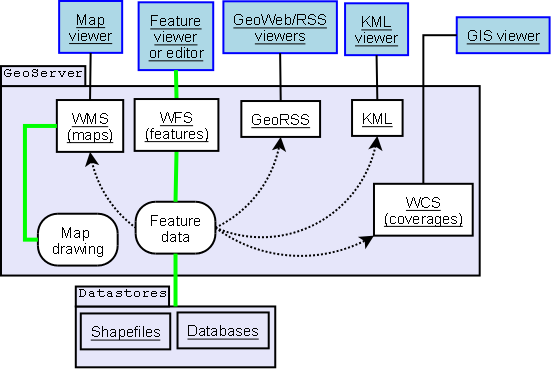 GeoServer interfaces sketch. Green represents read and write paths. Dotted arrowed line indicates mostly read-only data flow.